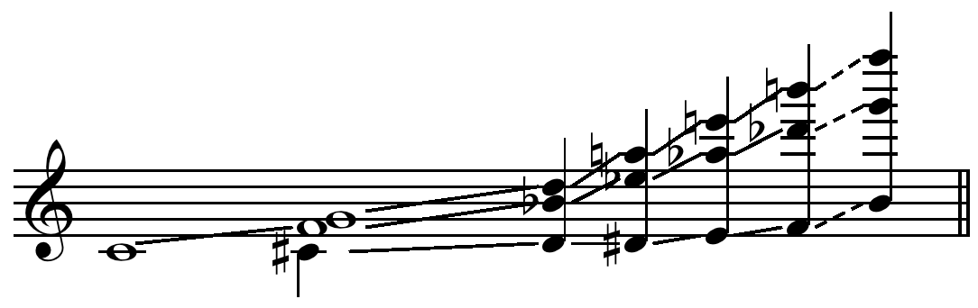 Chromatic scale into circle of fourths and/or fifths through multiplication as mirror operation (Eimert 1950, cited in Schuijer 2008, p.80). Created by Hyacinth (talk) 22:02, 7 October 2010 using Sibelius 5.